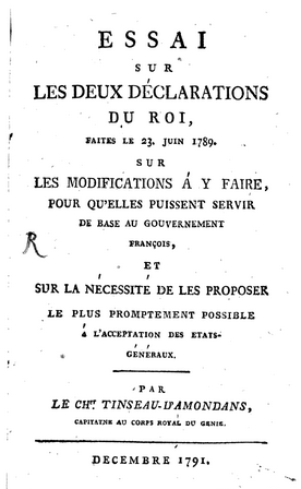 Frontpage of Essai sur deux declarations du Roy (1791) by Charles de Tinseau d'Amondans (1748-1822)